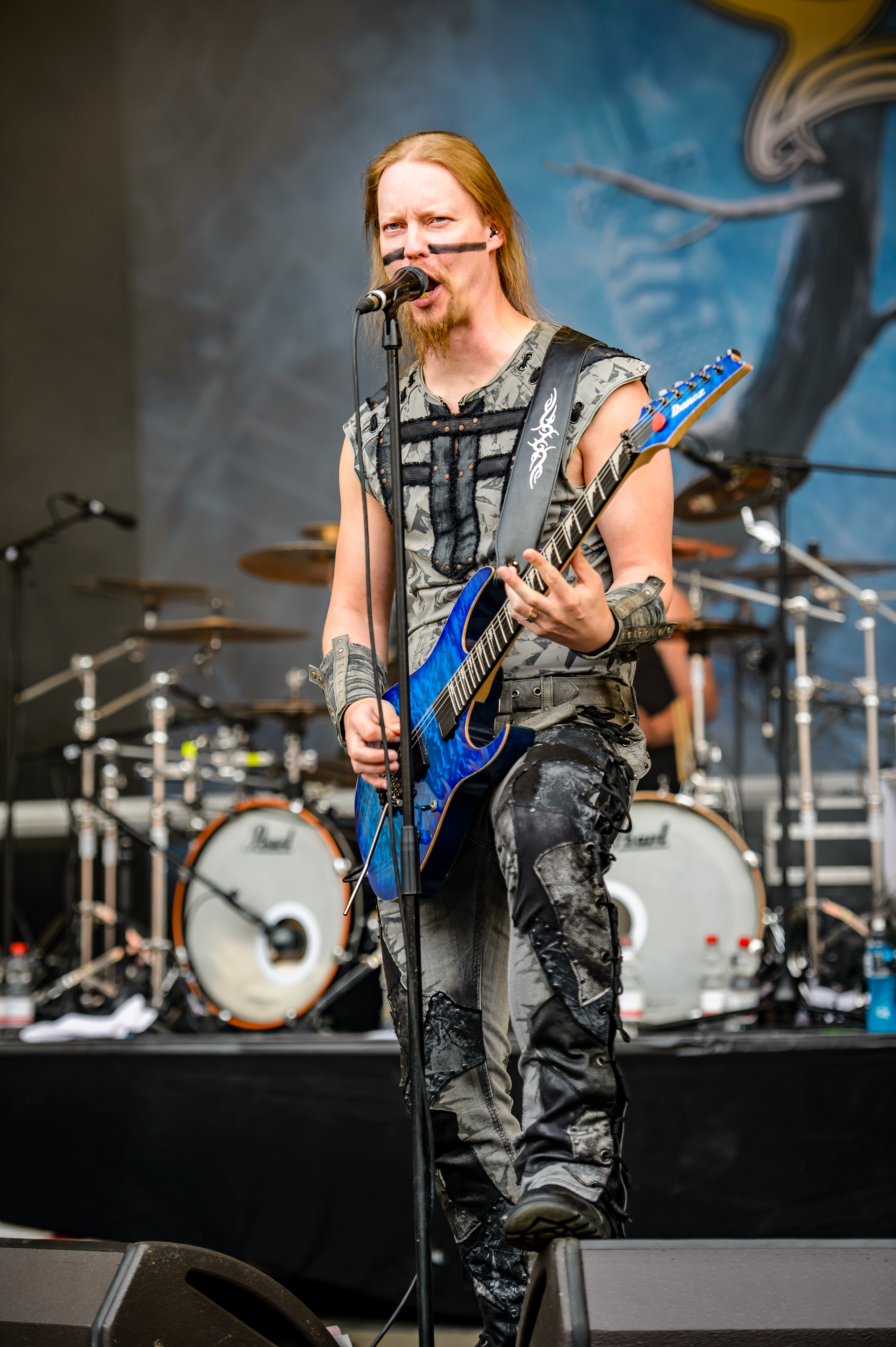 Ensiferum; RockFels 2016 - Loreley